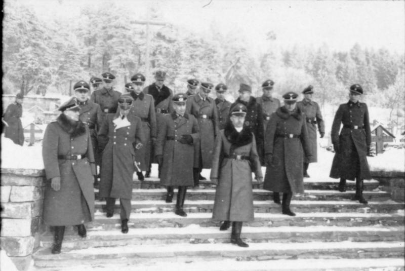 Information added by Wikimedia users.This picture is from the Ehrenfriedhof Ekeberg in Oslo, Norway